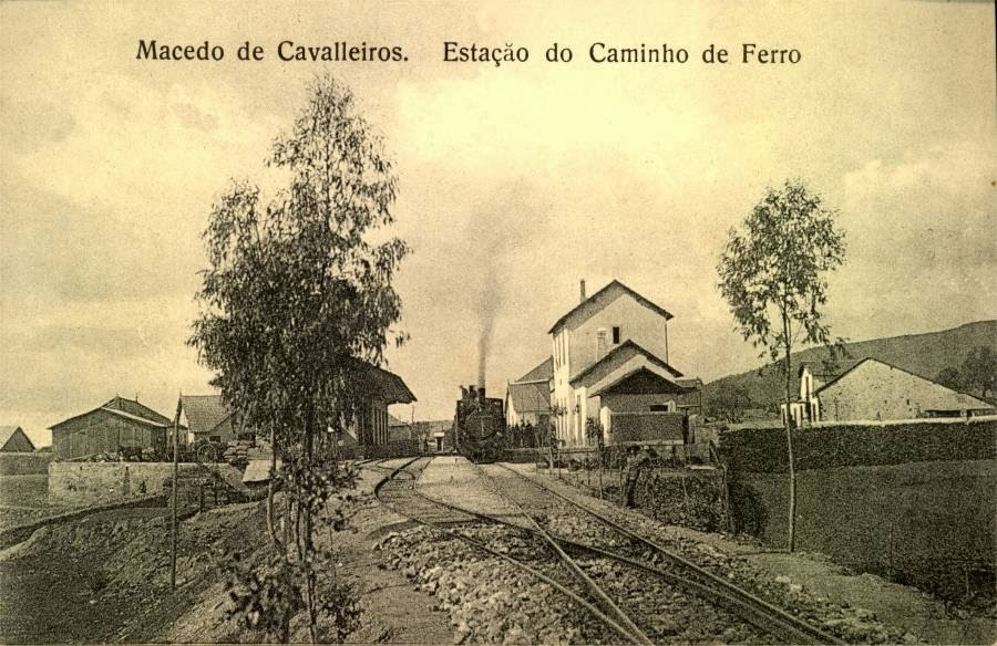 Macedo de Cavaleiros Train Station.